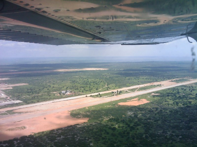 Construction site Angola International Airport